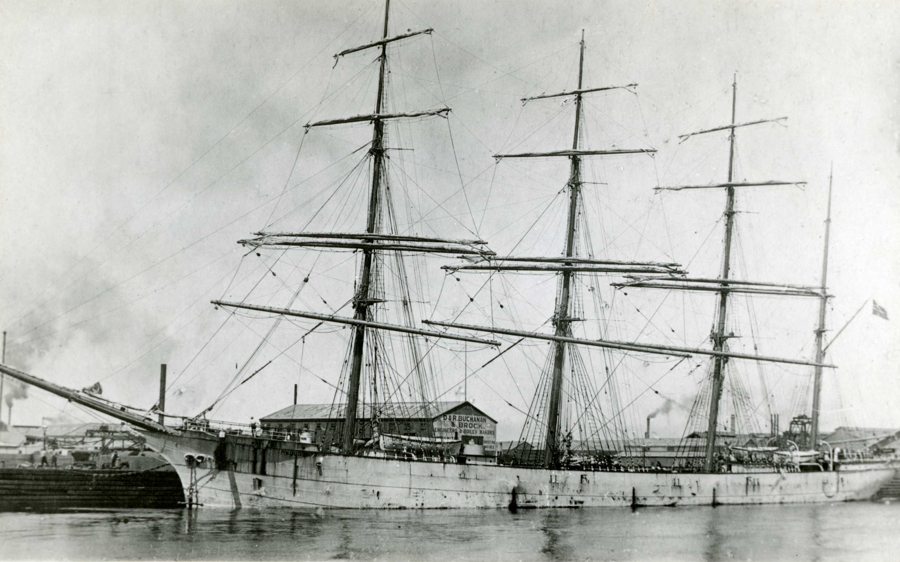 Norwegian fourmasted barque "Svolder" (ex. "Brackerdale"), probably in Melbourne. Shed in the background owned by D. & R. Buchanan & Brock, Engineers & Boiler Makers